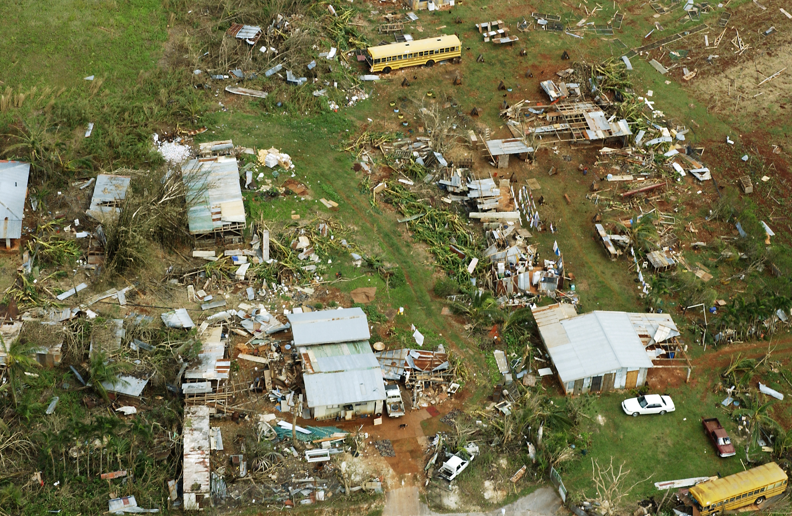 Guam, December 13, 2002 -- Damages are seen on the island of Guam caused by Supertyphoon Pongsona. Photo by Andrea Booher/FEMA News Photo